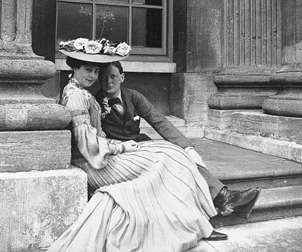 Consuelo and Winston Churchill at Blenheim